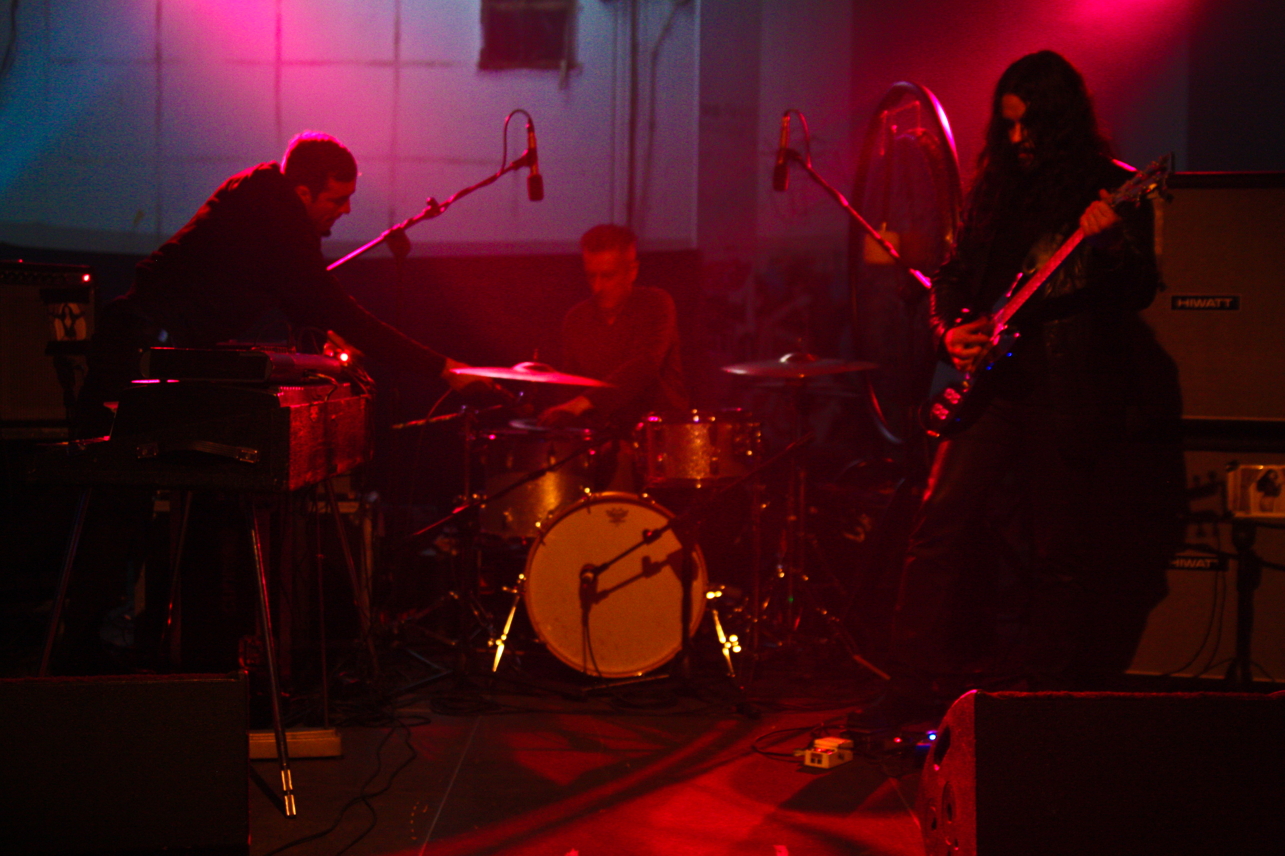 Aethernor playing live in 2010.